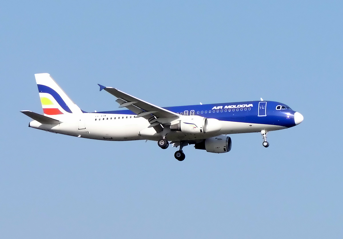 Air Moldova A320-200 (ER-AXW) in Frankfurt (EDDF), this aircraft (c/n 0662) is now part of the fleet of "Wells Fargo Bank Northwest" as N662WF